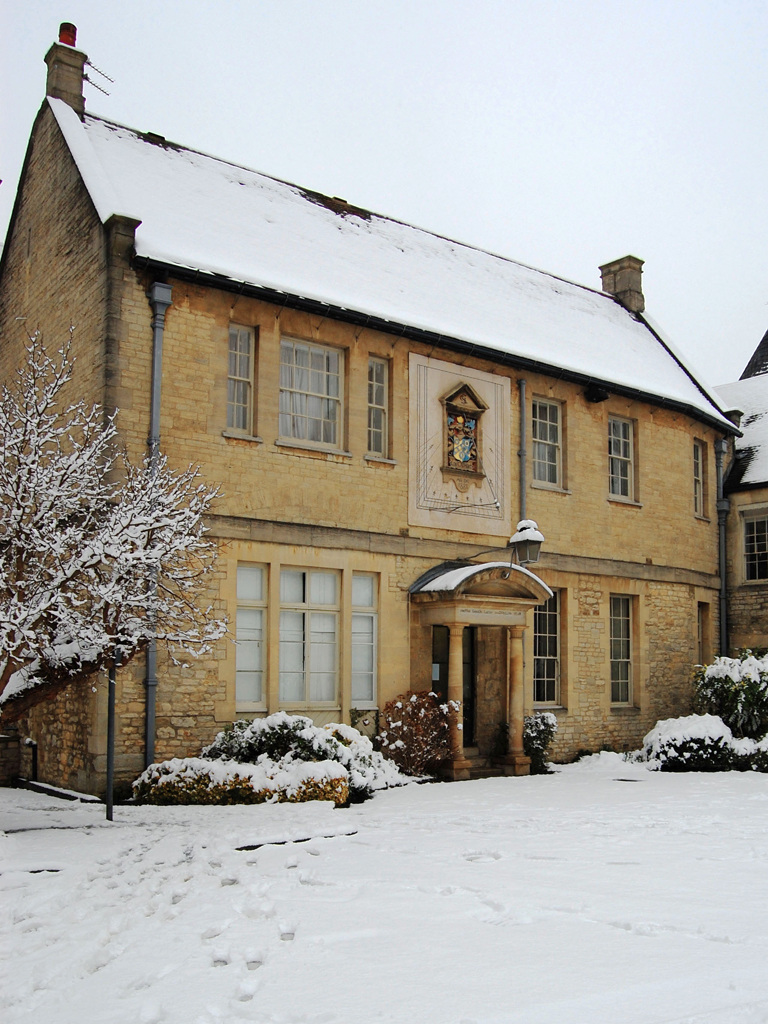 Frewin Hall in the snow.